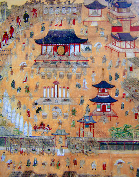 Chinkoji Sankei Mandala, Rokudo Chinkoji, Kyoto, Japan